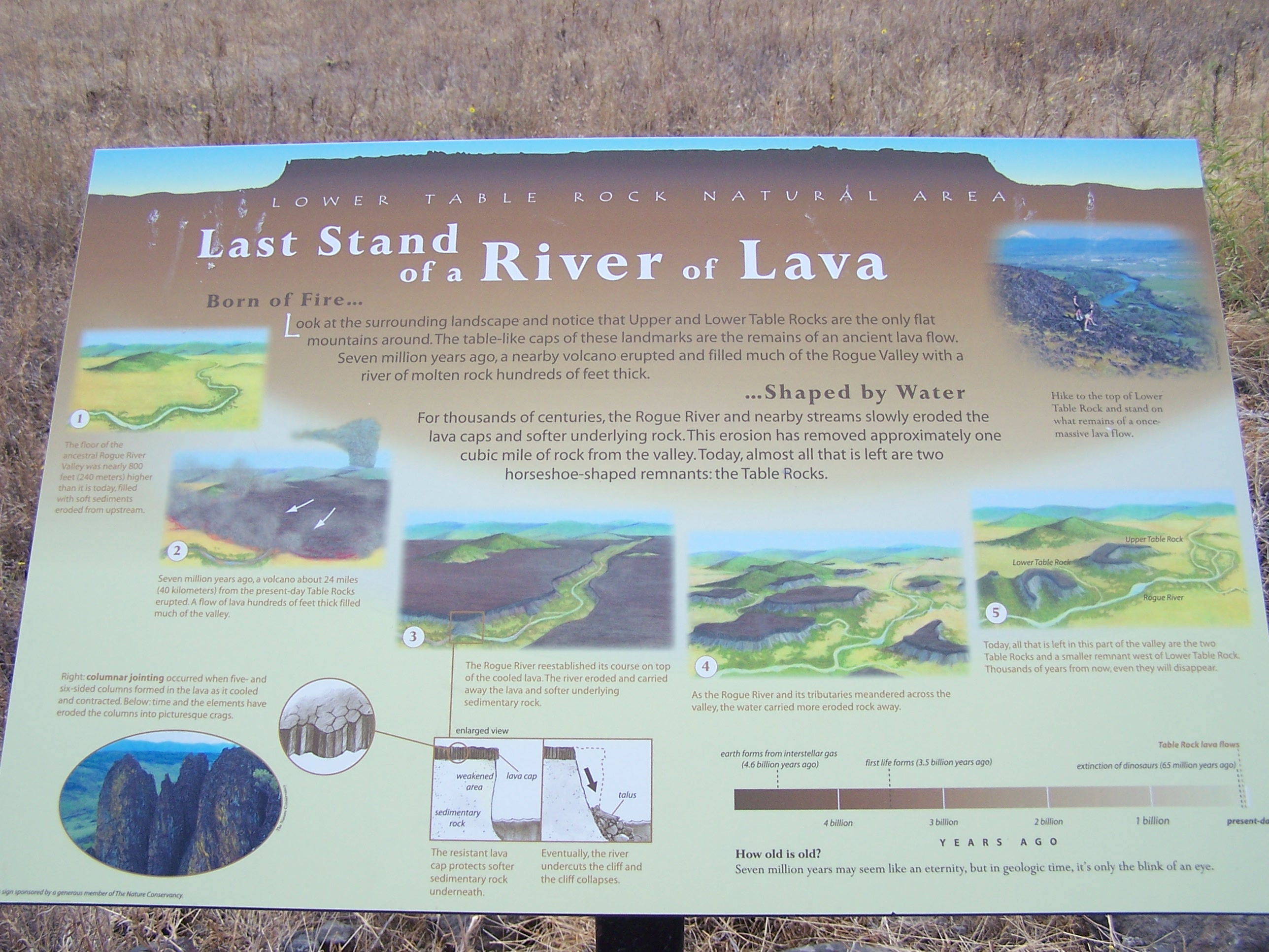 The third interpretive sign on the Lower Table Rock Trail.